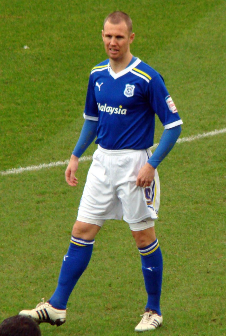 02/01/12 Cardiff V Reading, Championship, Cardiff City Stadium, Cardiff, Wales